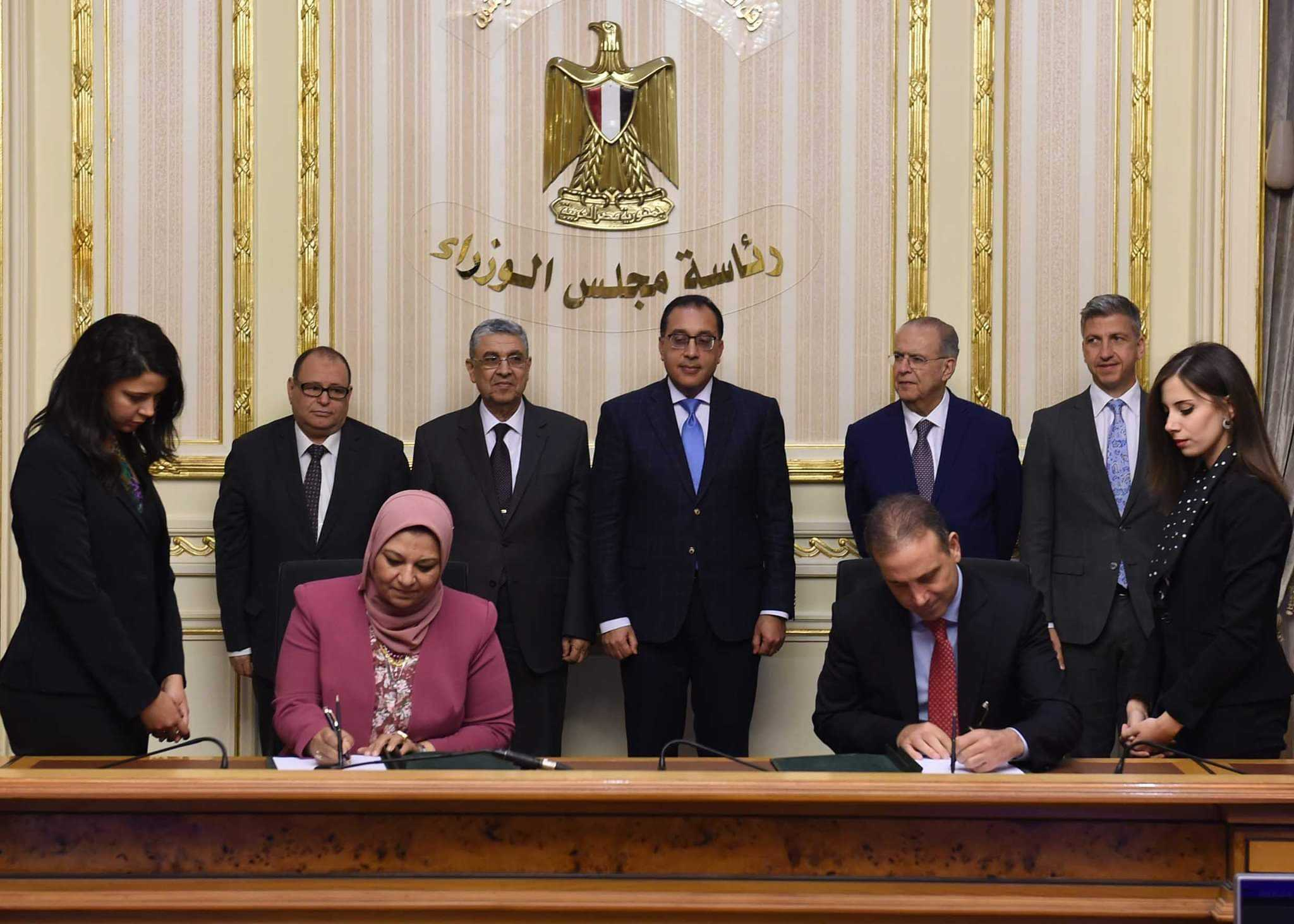 The framework agreement for implementation of EuroAfrica Interconnector was signed on 23. May 2019 in Cairo in the main hall of the Council of Ministers of Egypt by EuroAfrica Interconnector CEO Nasos Ktorides and Eng. Sabah Mohamed Mashal, Chairperson of the Egyptian Electricity Transmission Company . They signed agreement in presence of Moustafa Madbouly, the Prime Minister of Egypt, Eng. Gaber Dessouki, Chairman of the Egyptian Electricity Holding Company, Dr. Mohamed Shaker El-Markabi, Minister of Electricity, Ioannis Kasoulides, former Cypriot foreign minister and Chairman of the Strategic Council of the EuroAfrica Interconnector and Charis Moritsis, Cyprus Ambassador to Cairo